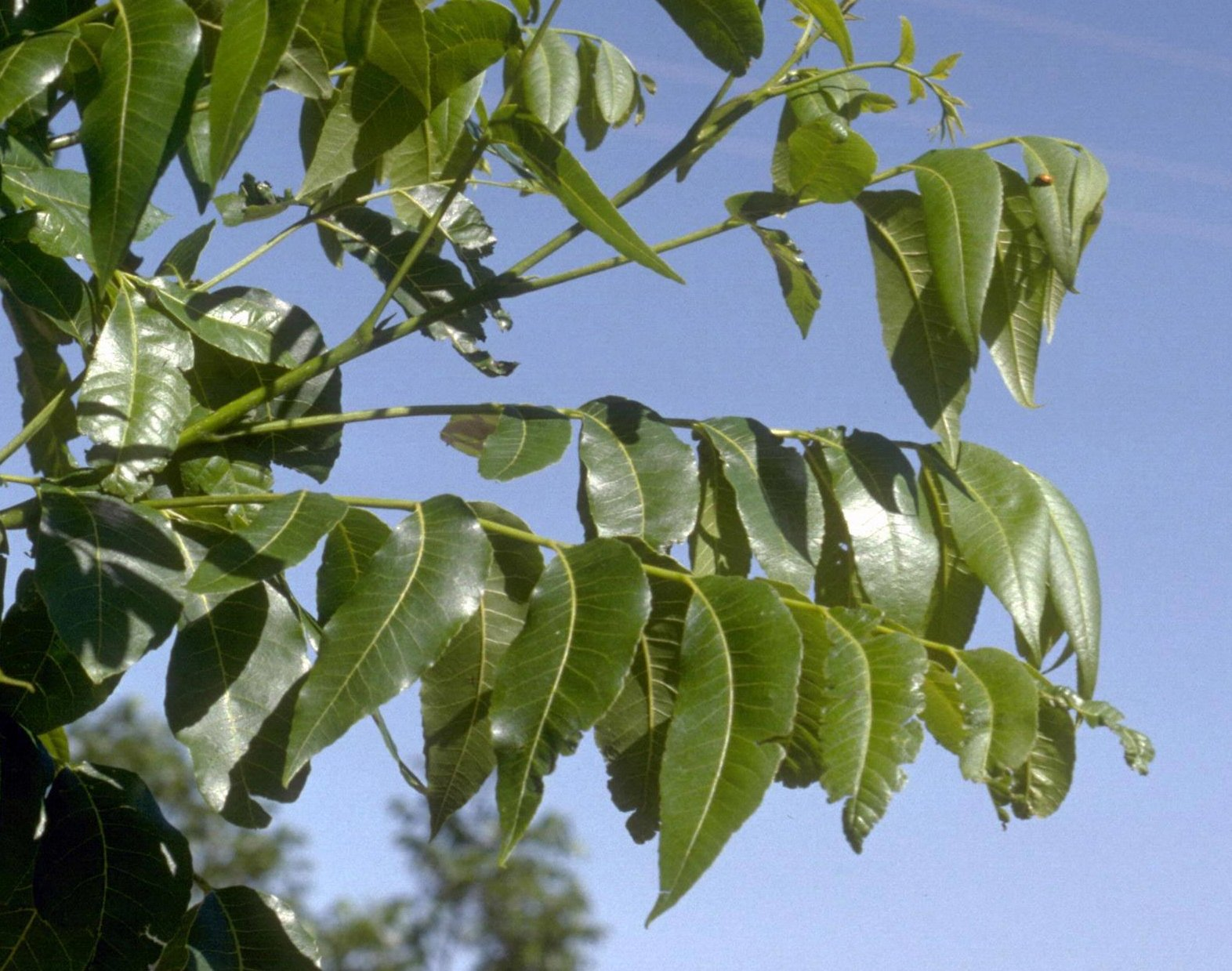 Carya illinoinensis foliage (Extraction of Carya illinoinensis foliage.jpg)